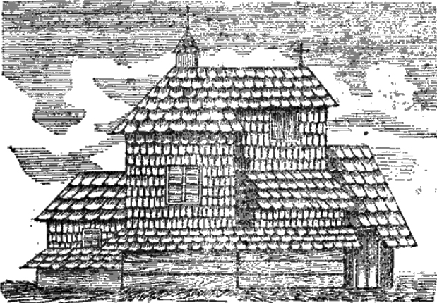 Сhurch in Sykhiv (now a district of Lviv), a picture from the book of 1877.